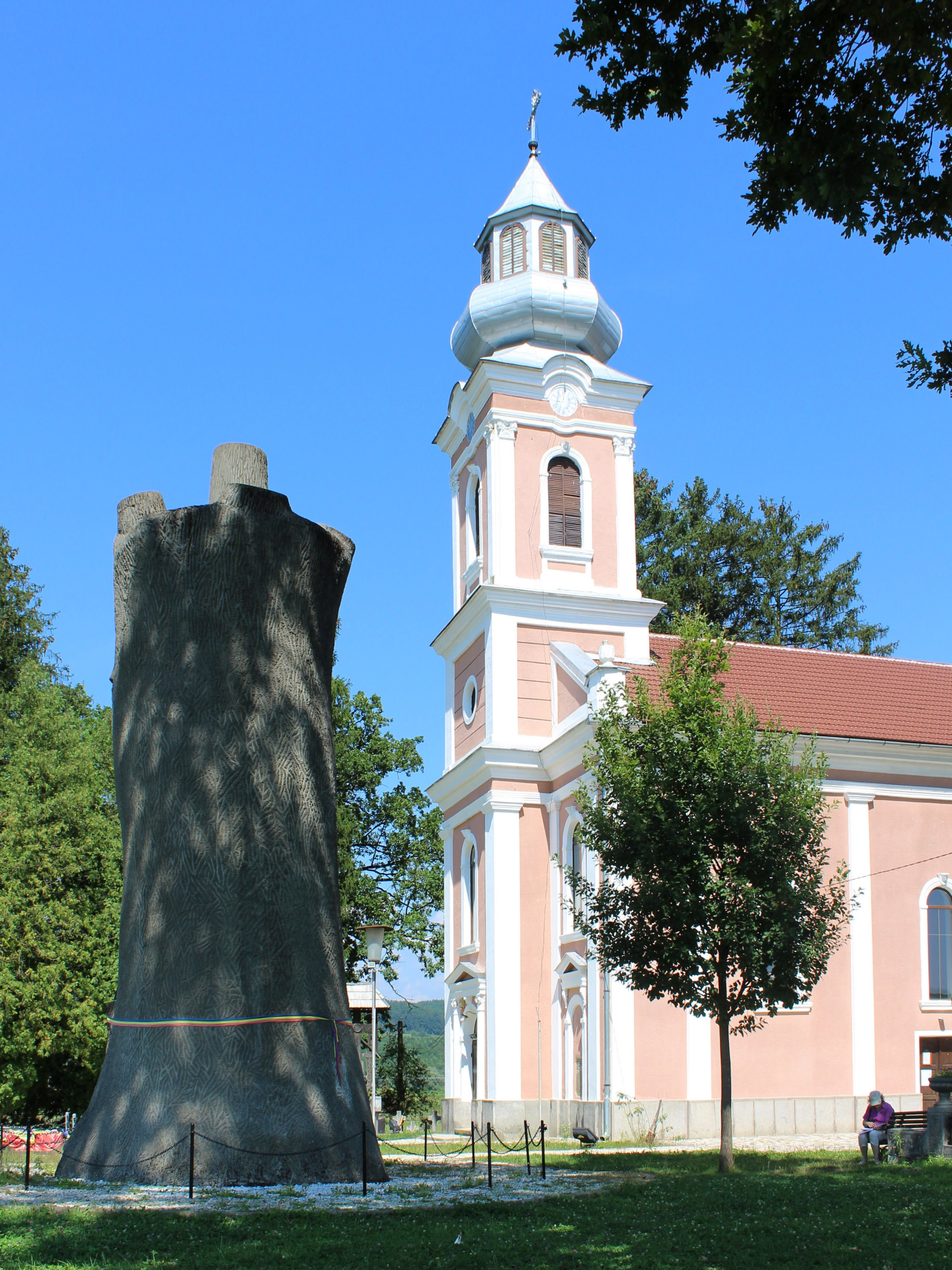 Sessile oaks of Horea and of Heroes of Liberty, Țebea, Hunedoara, 2016